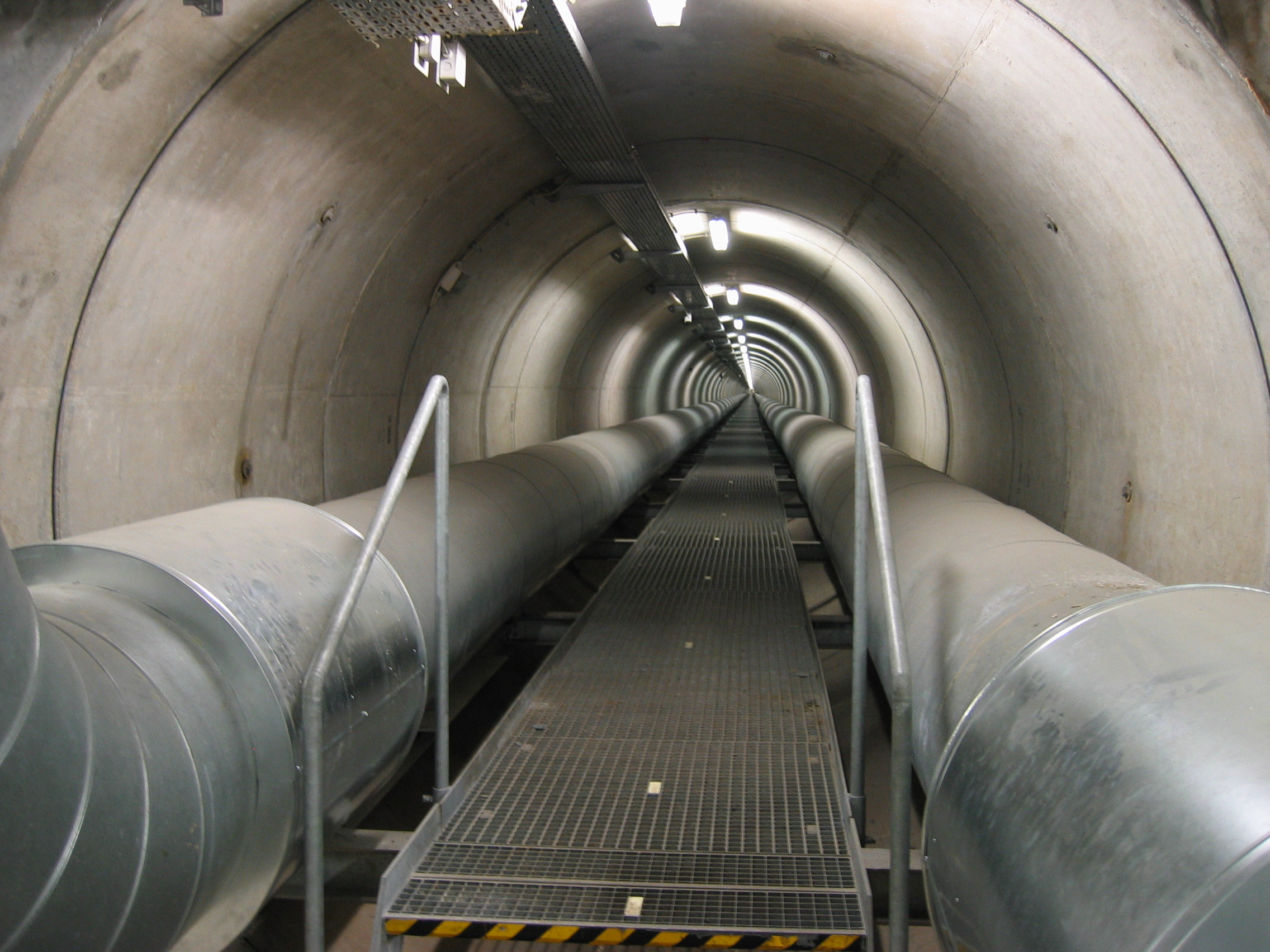 District heating tunnel under the Rhine, in Cologne, Germany